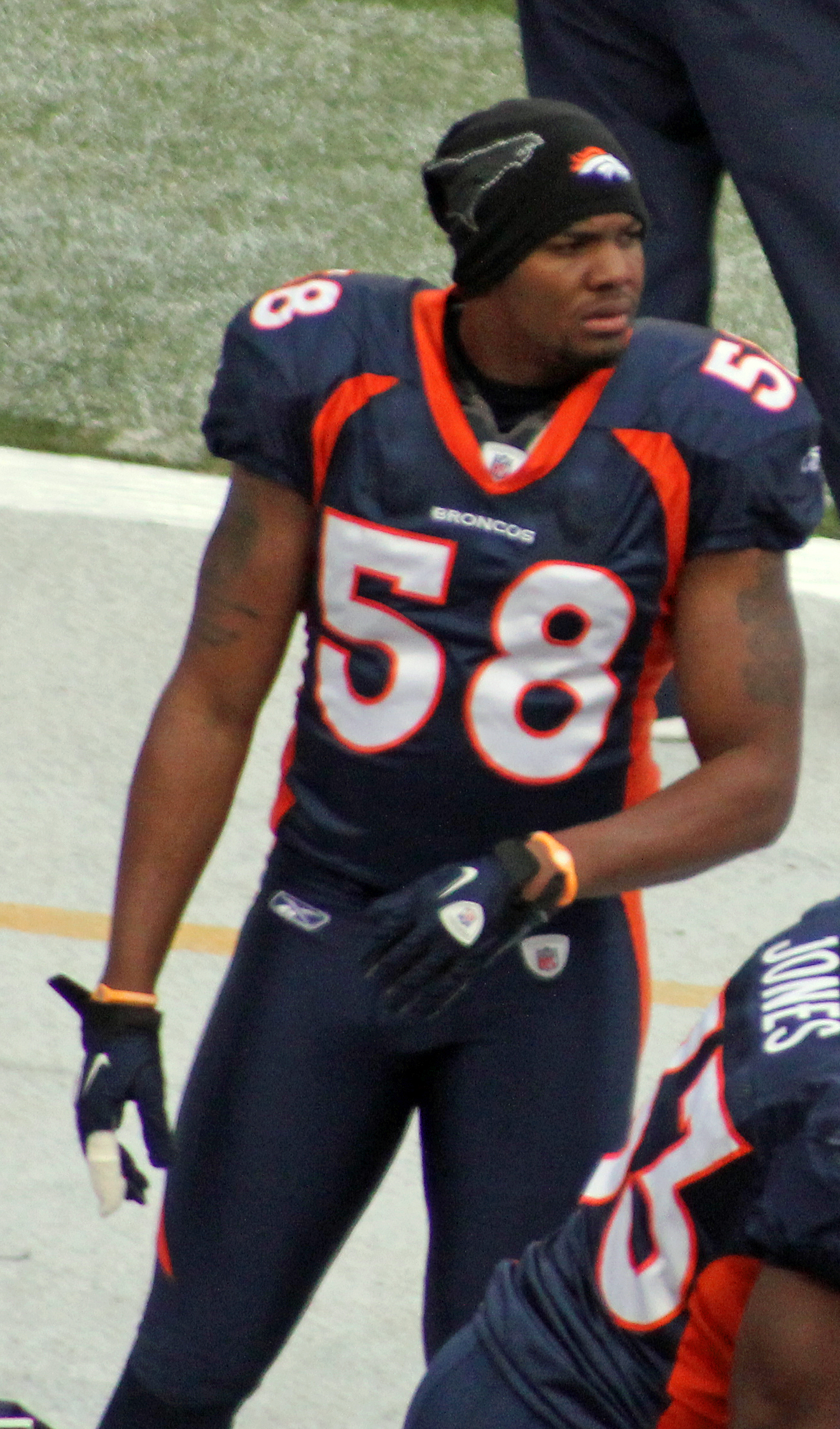 Kevin Alexander a linebacker on the Denver Broncos American football team.